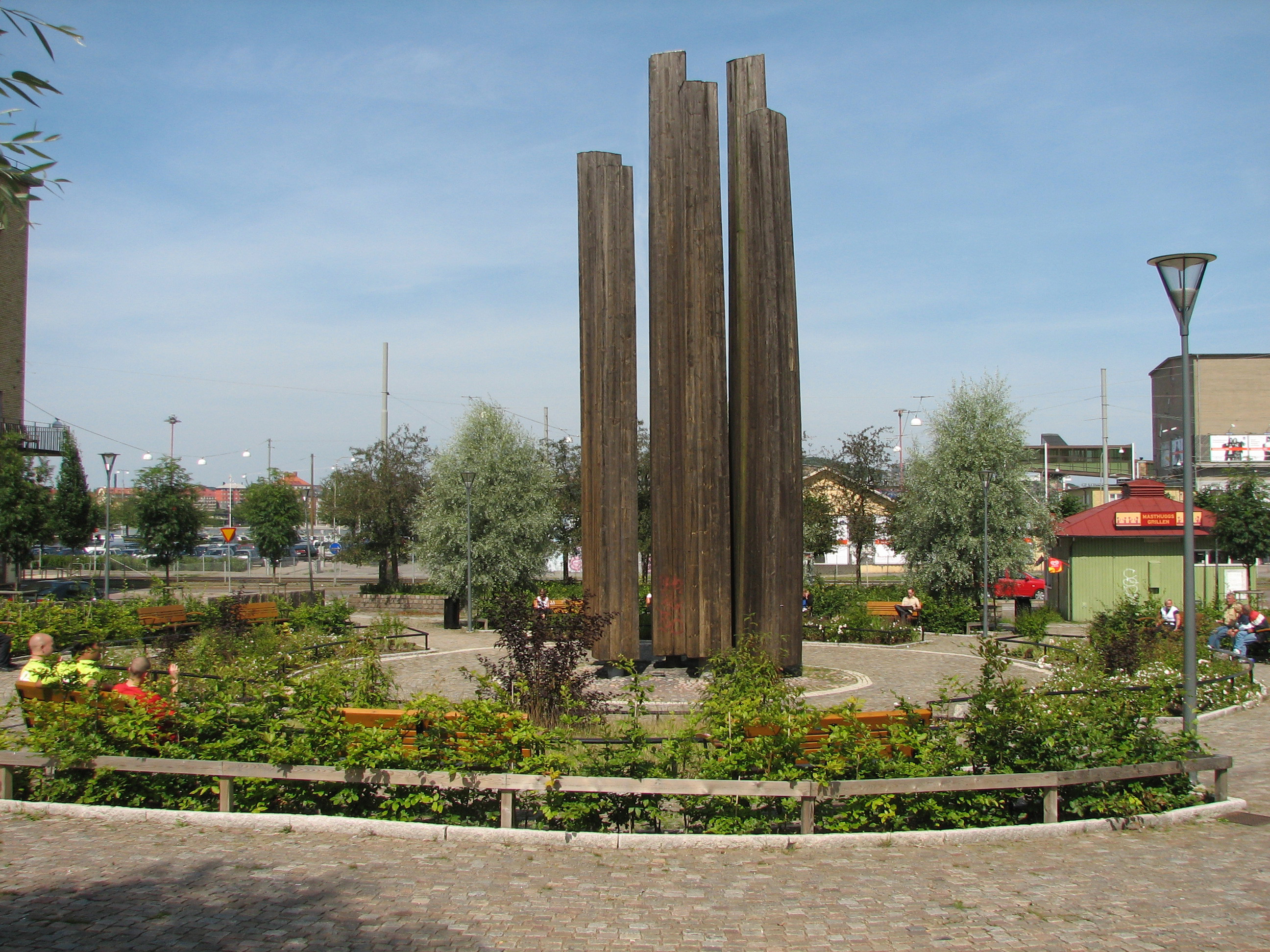 The sculpture Masterna by Erling Torkelsen, placed at Masthuggstorget in Göteborg, Sweden.